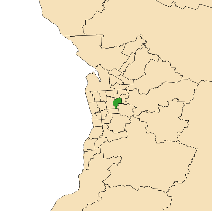 Electoral district 2018 boundaries shown in green